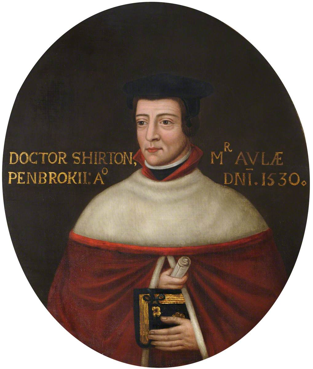 Robert Shorton (d.1535), Master of Pembroke College (and formerly St John's College), Cambridge